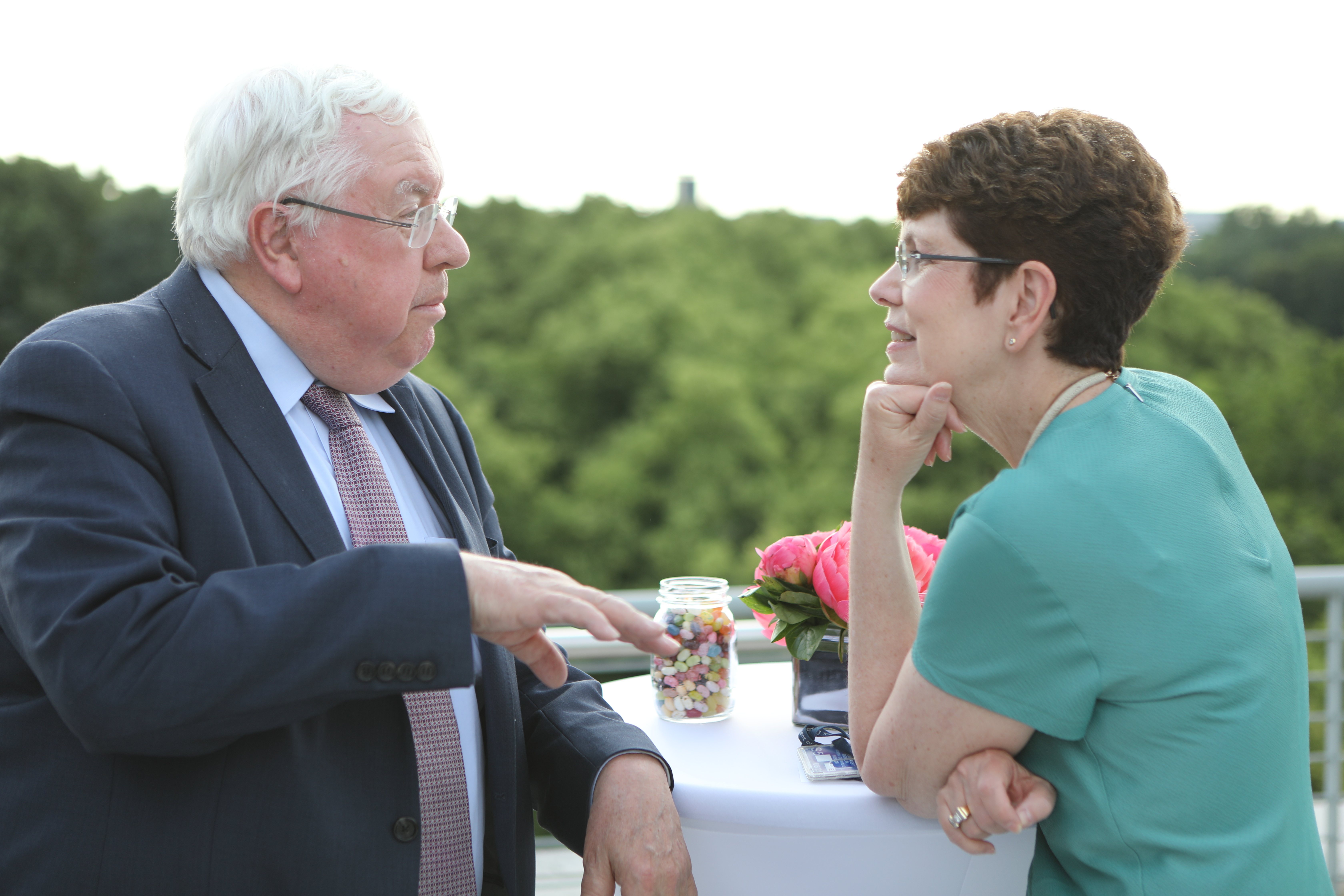 John Kornblum and Robin Quinville, June 2019